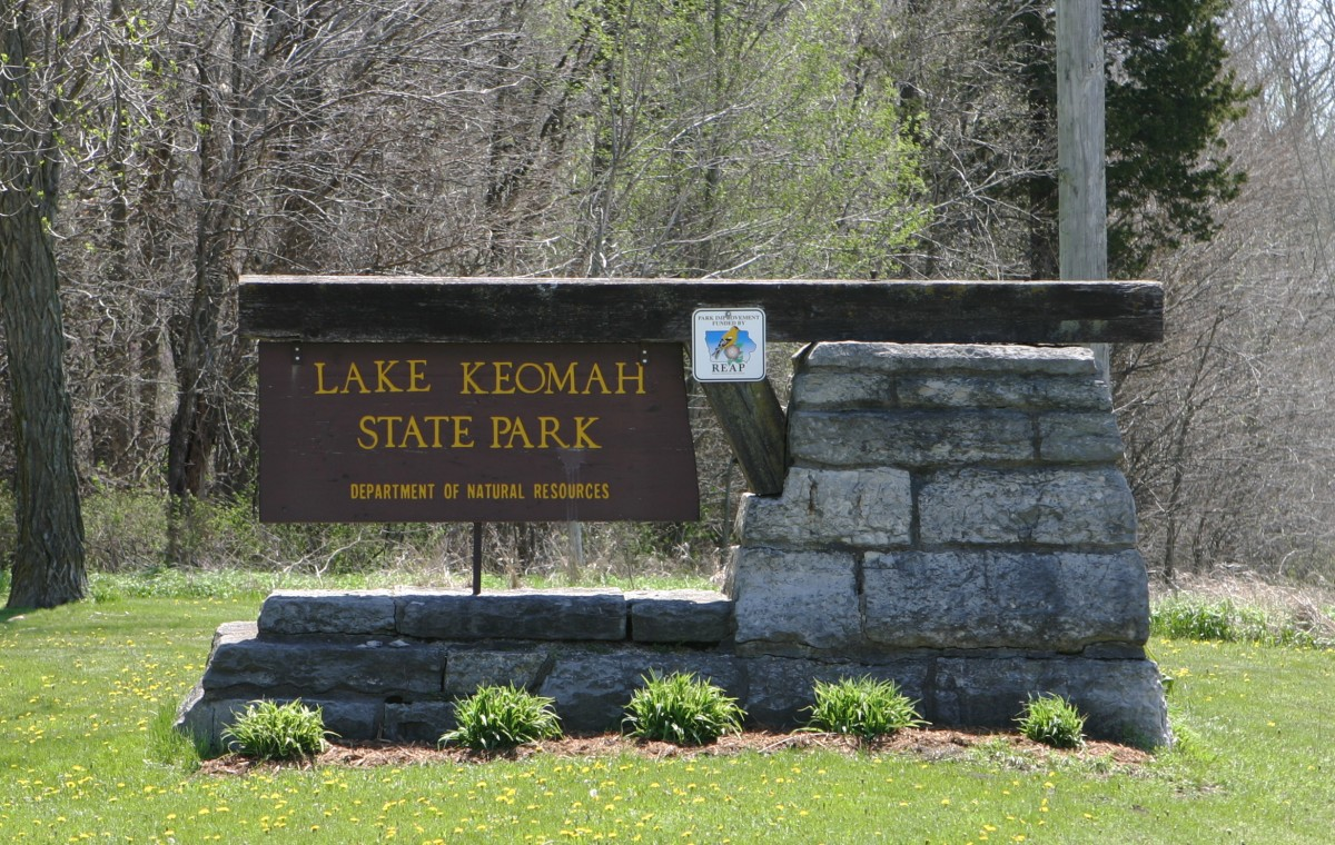 Entrance sign for Lake Keomah State Park in Iowa.